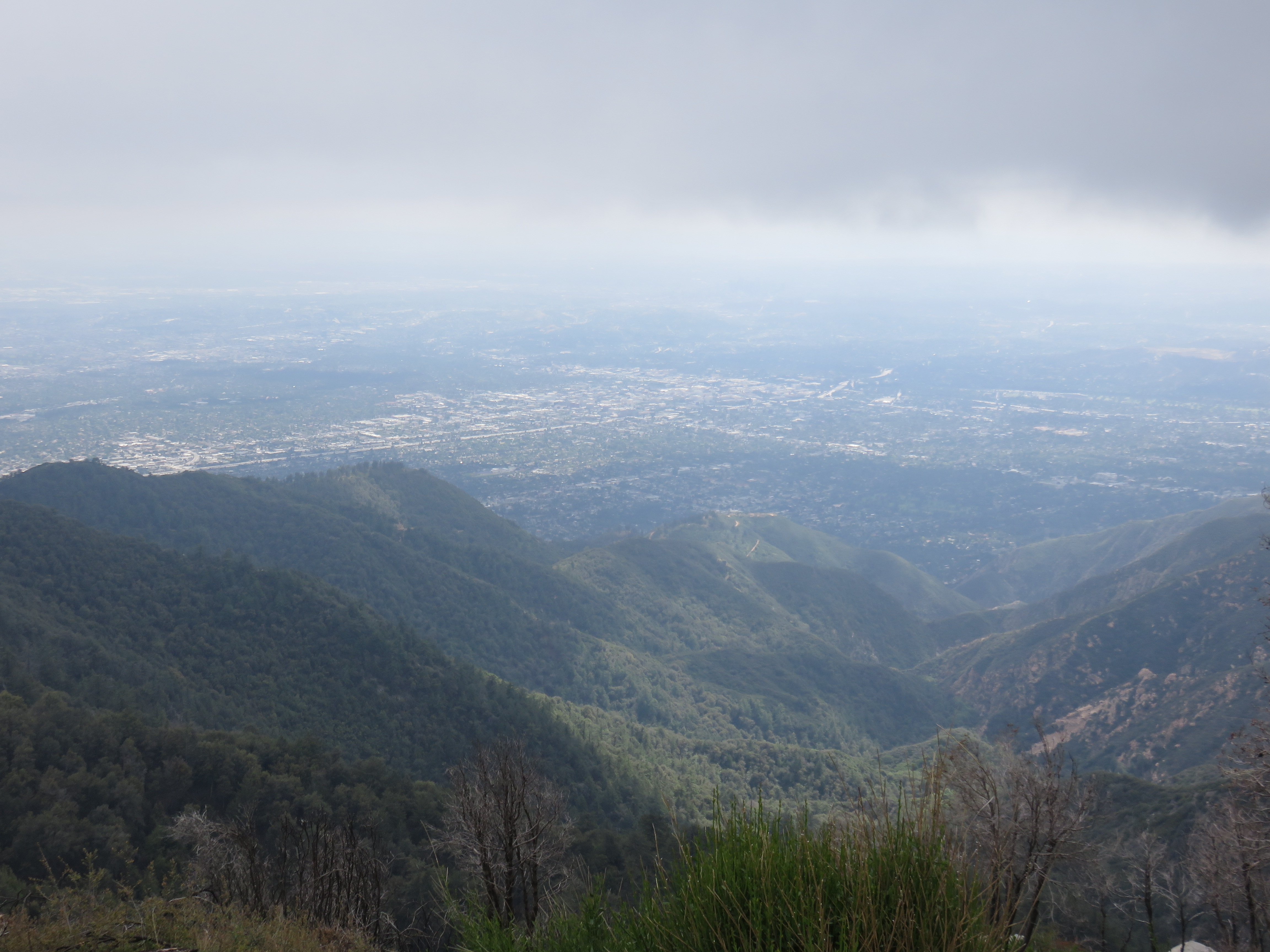 Pasadena, California viewed from Mount Wilson on a cloudy day in 2019